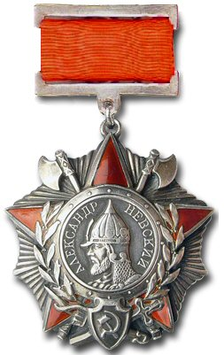 Soviet Order of Alexander nevsky, type 1 1942-43.